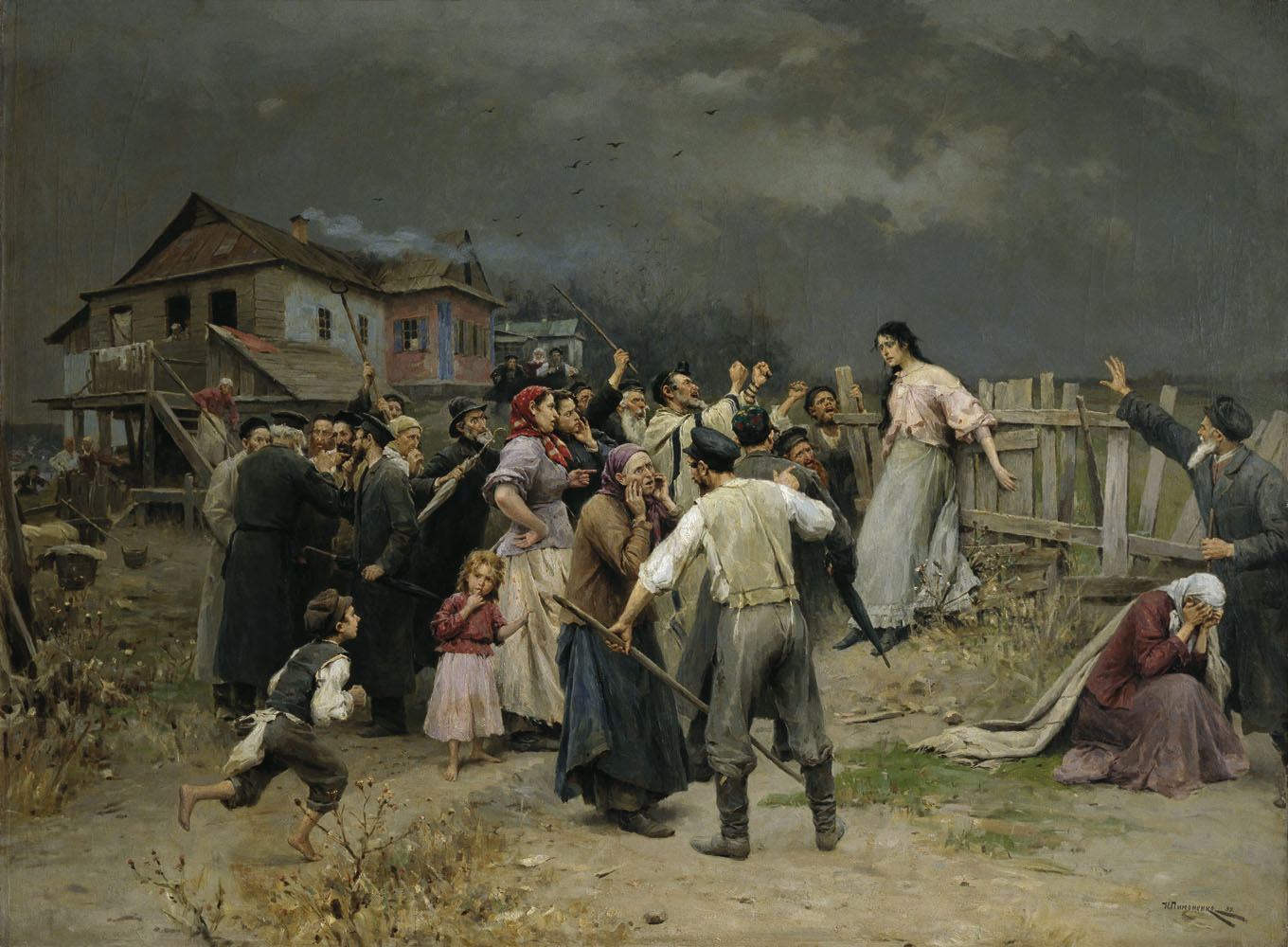 The painting tells a story about the real incident - punishment by the Jewish community in Kremenets in Ukraine (now Ternopil Province) of a Jewish girl for her relationship with an Orthodox boy and her transition to Christianity. She wears a cross on her neck.